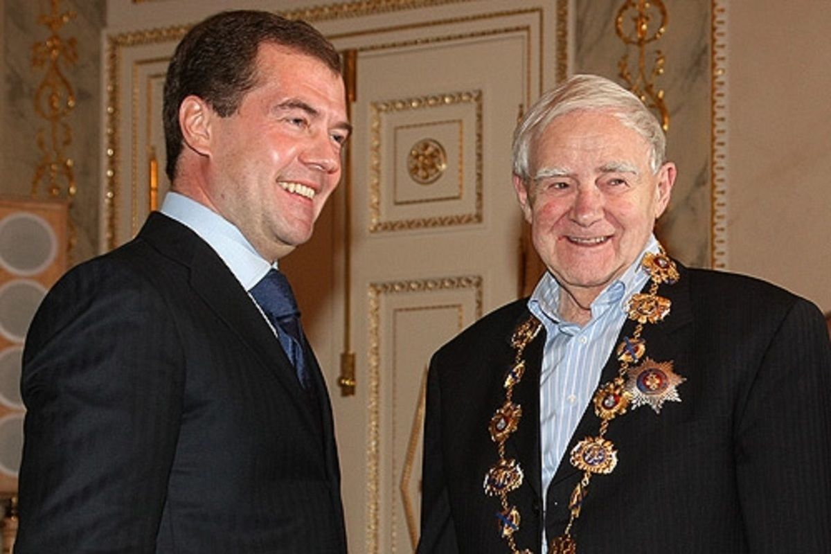 CONSTANTINE PALACE, STRELNA. Dmitry Medvedev awarded Daniil Granin the Order of St Andrew the Apostle.